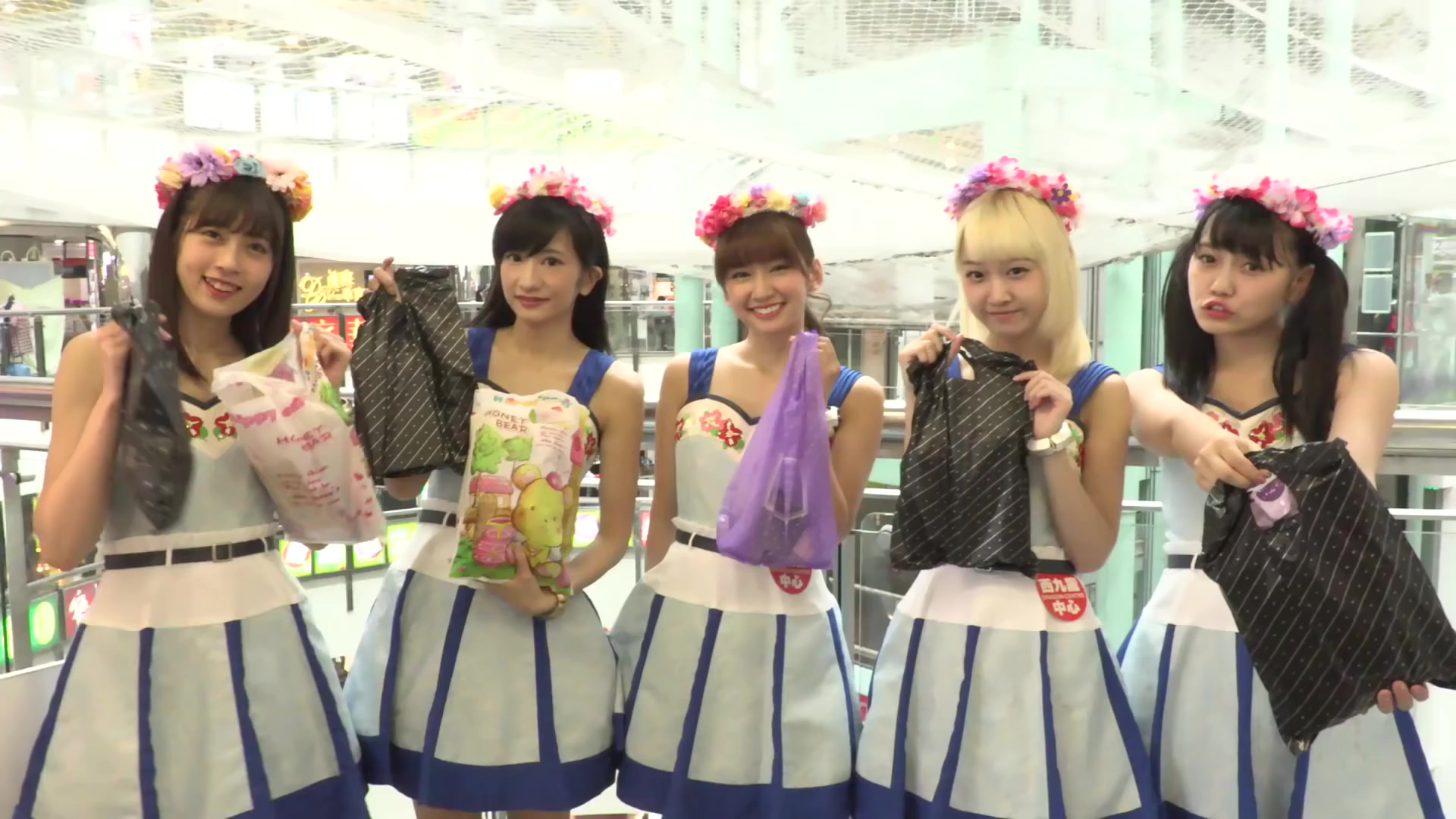 J Pop Live 2016 Presents - Doll Elements見面會 @ 西九龍中心